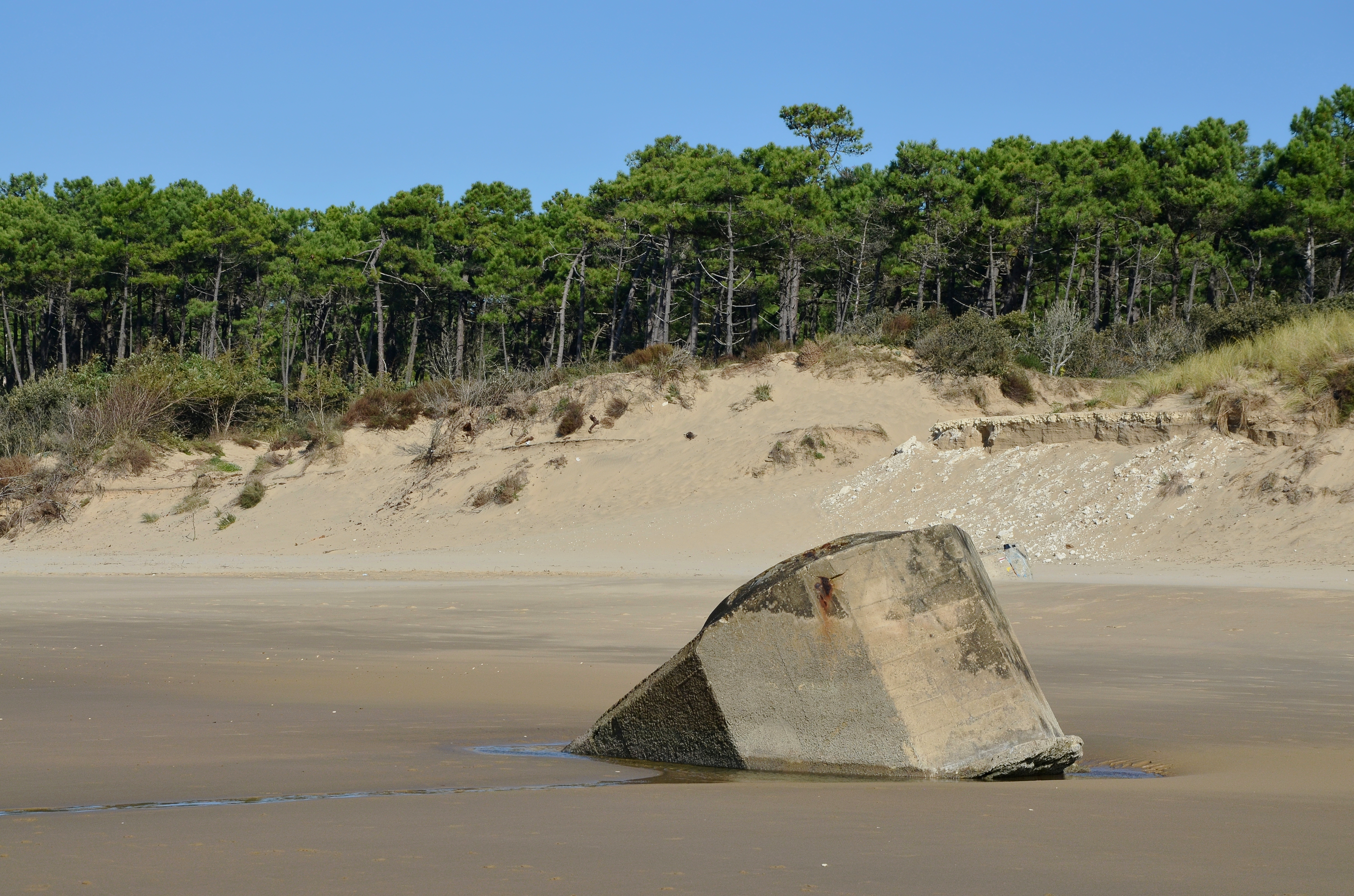 Forest of martimie pines (Pinus pinaster) and remains of a bunker, beach of the Grande-Côte, Saint-Palais-sur-Mer, Charente-Martitime, France.